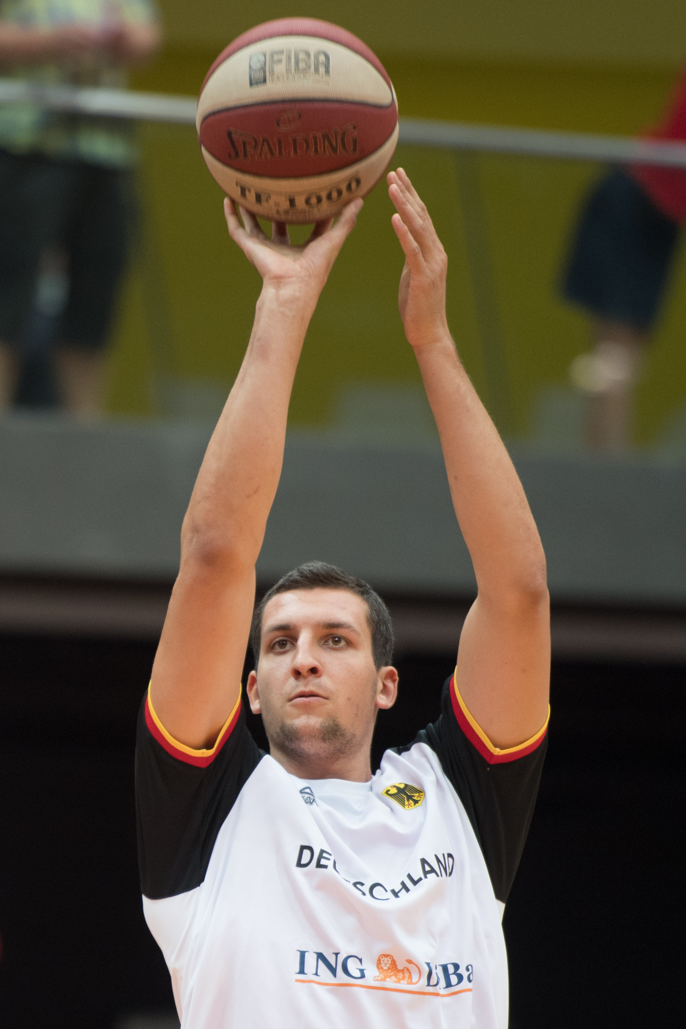 EuroBasket 2017 Qualification Austria vs Germany, Schwechat, Lower Austria, 2016-09-03.